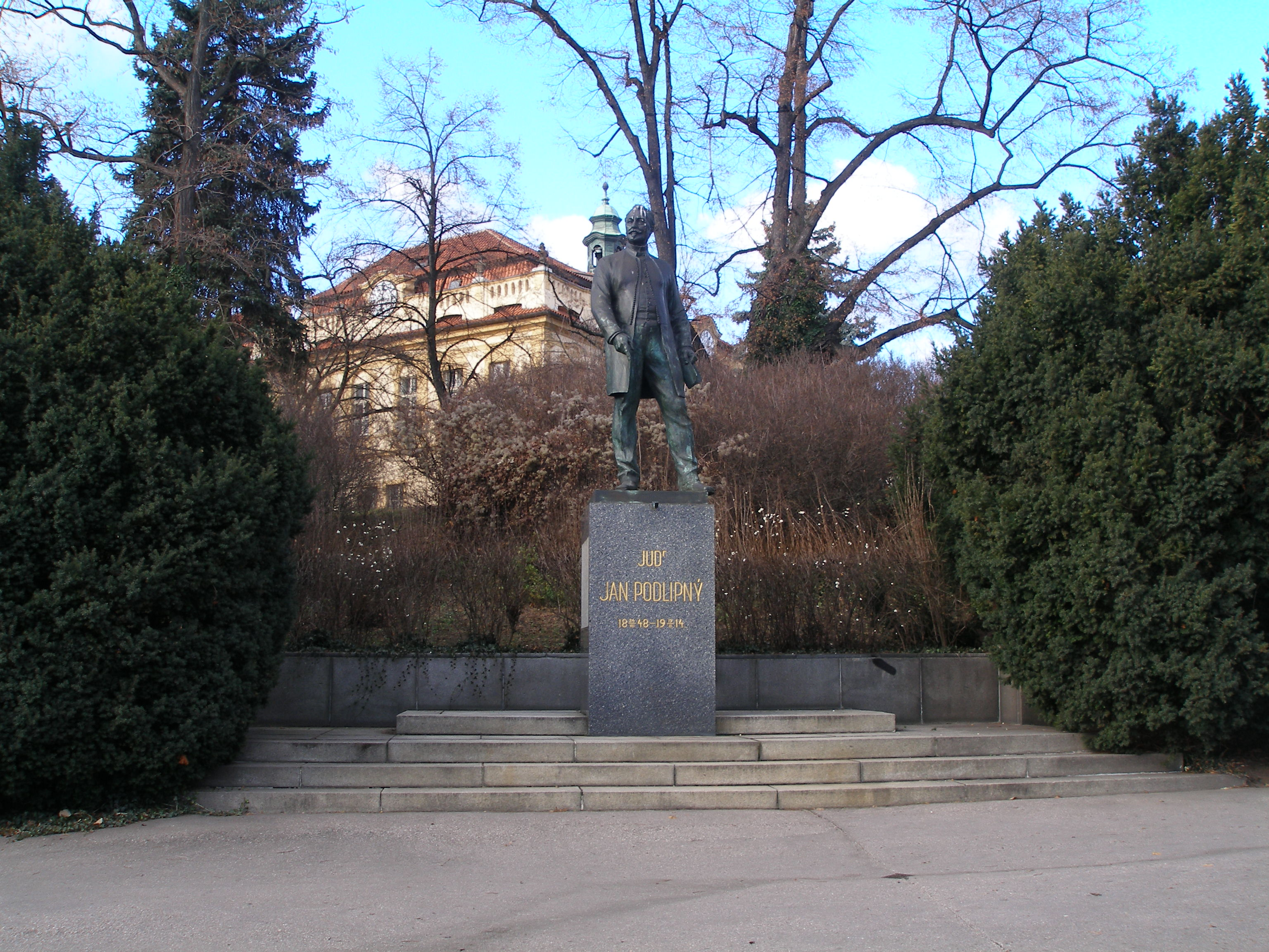 Statue of Jan Podlipný in Prague Libeň.